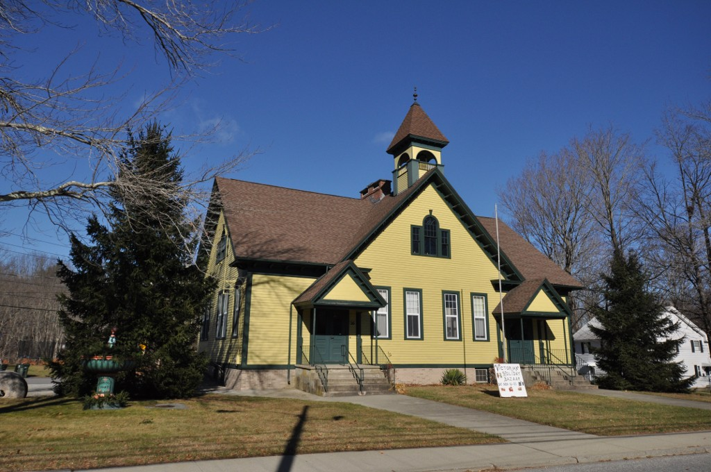 The Bridgeton School, in the Pascoag section of Burrillville, Rhode Island.